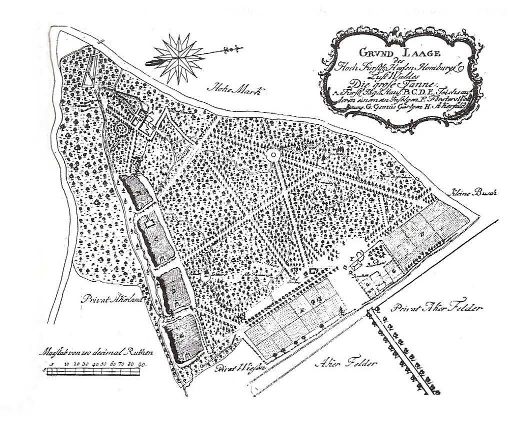 Map of "Großer Tannenwald" in the year 1782/83, part of the gardens of the counts of Hessen-Homburg, Bad Homburg, Germany, by Zell